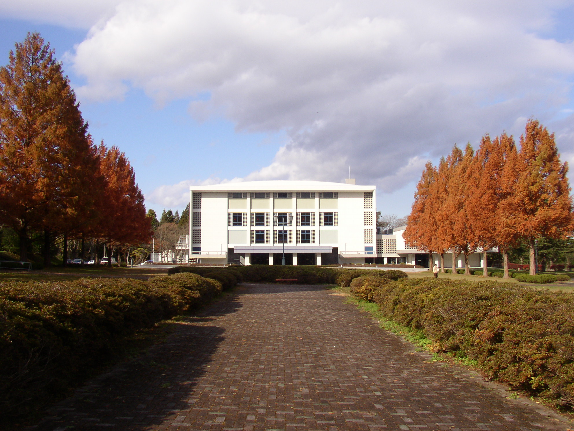 Tohoku University Centennial Hall "Kawauchi Hagi Hall" in Sendai,Japan.